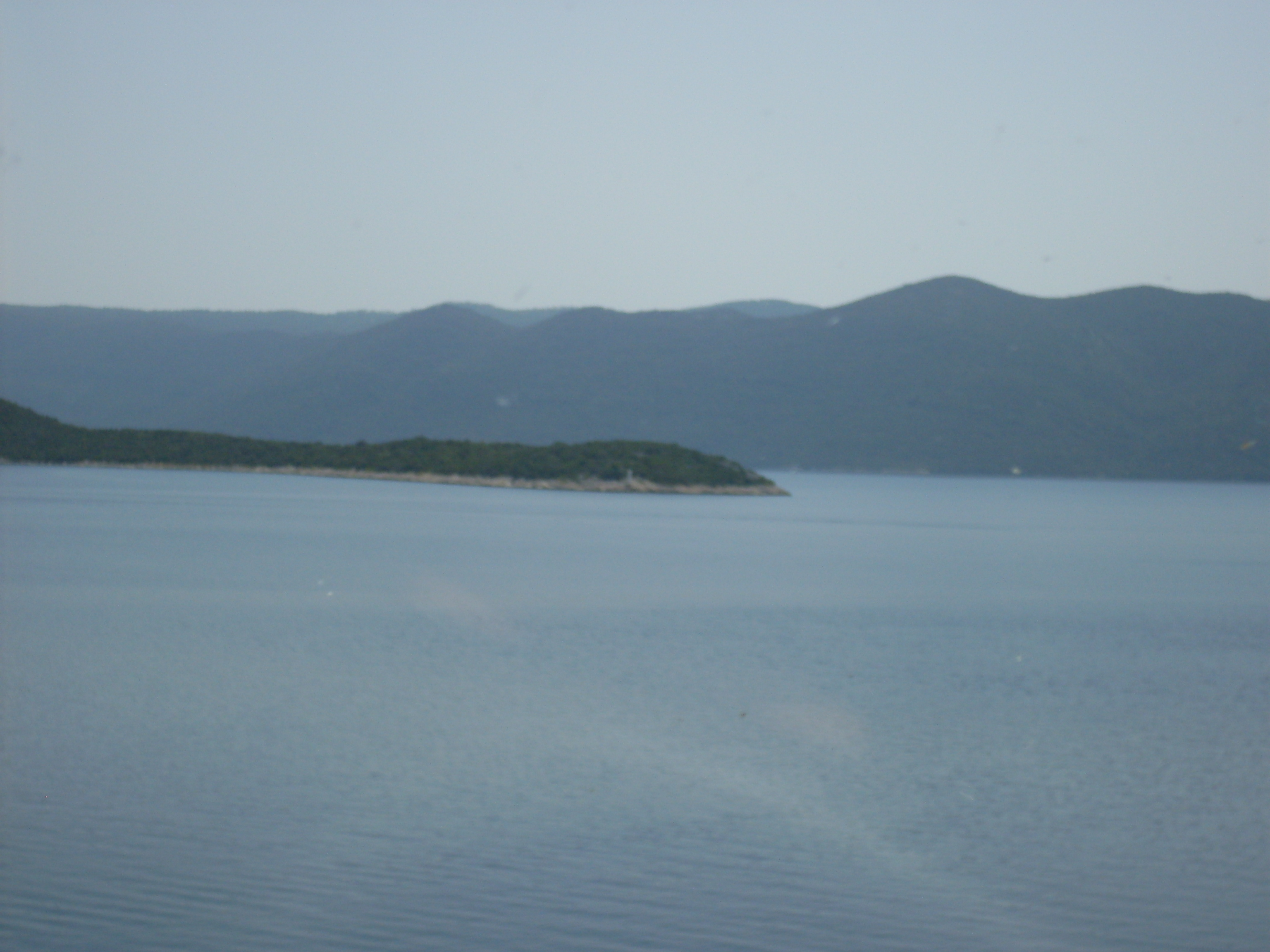 Peak of Klek peninsula in Bosnia and Herzegovina